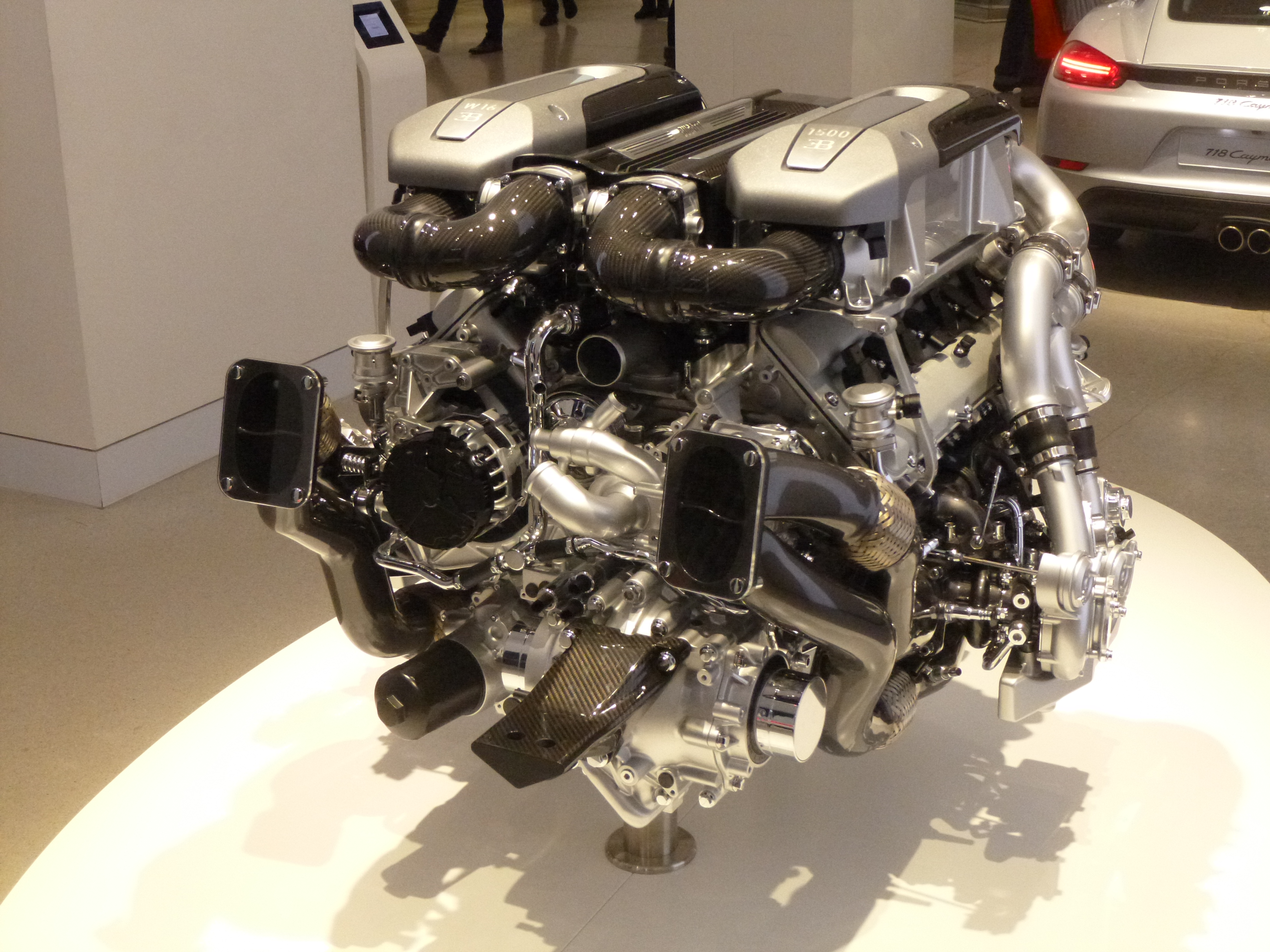 W16 engine Bugatti Chiron